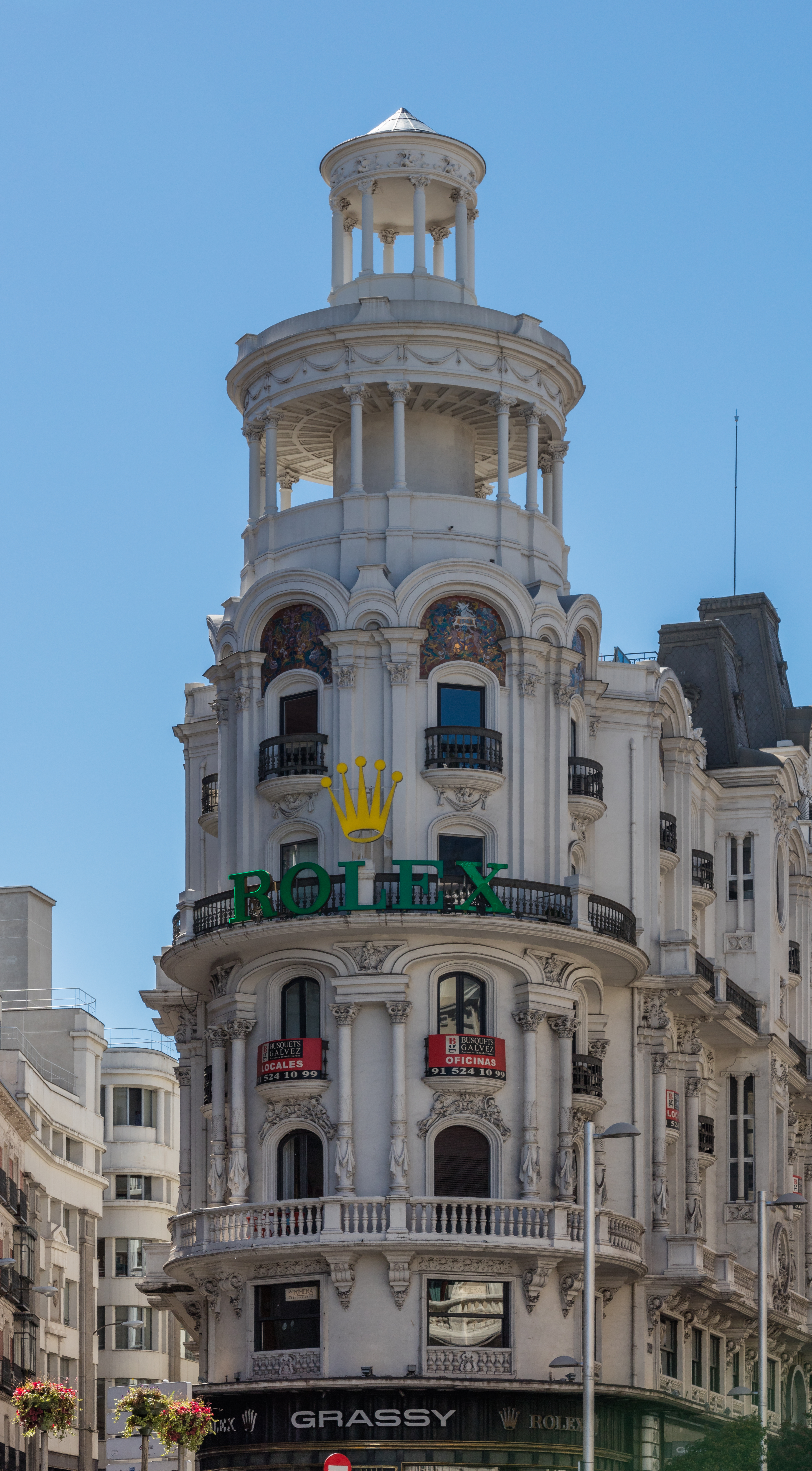 Grassy building, Gran Vía Street, Madrid, Spain